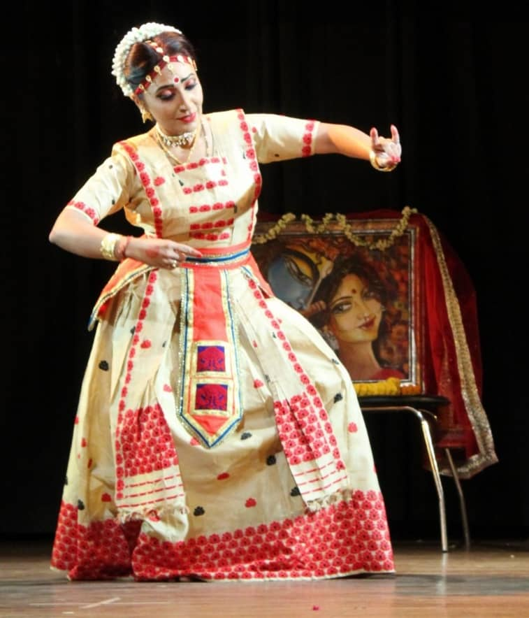 School and Training